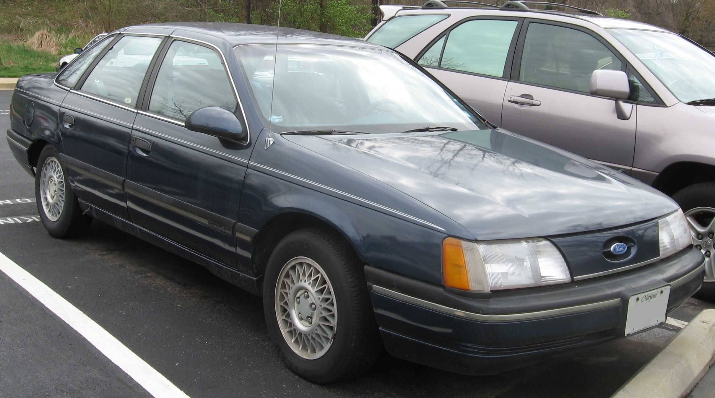 1986-1988 Ford Taurus photographed in Kensington, Maryland, USA.